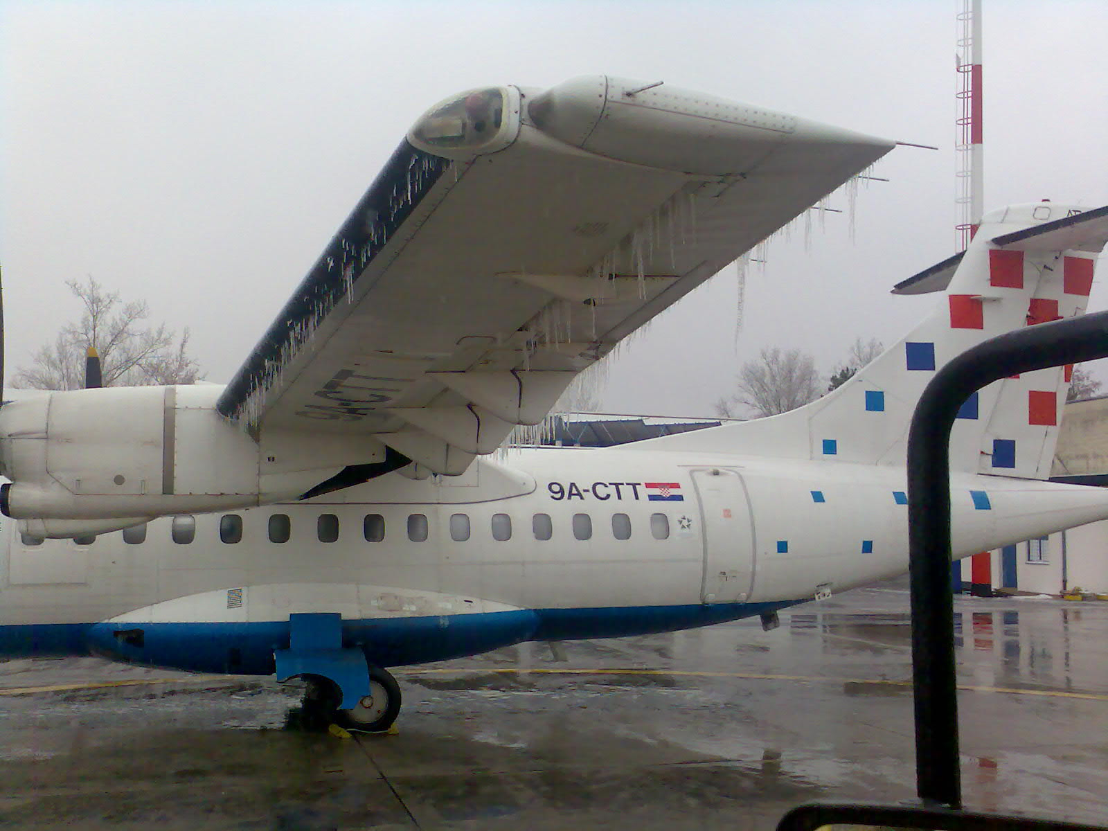 Worst thing for de-icing: freezing rain. (9A-CTT)